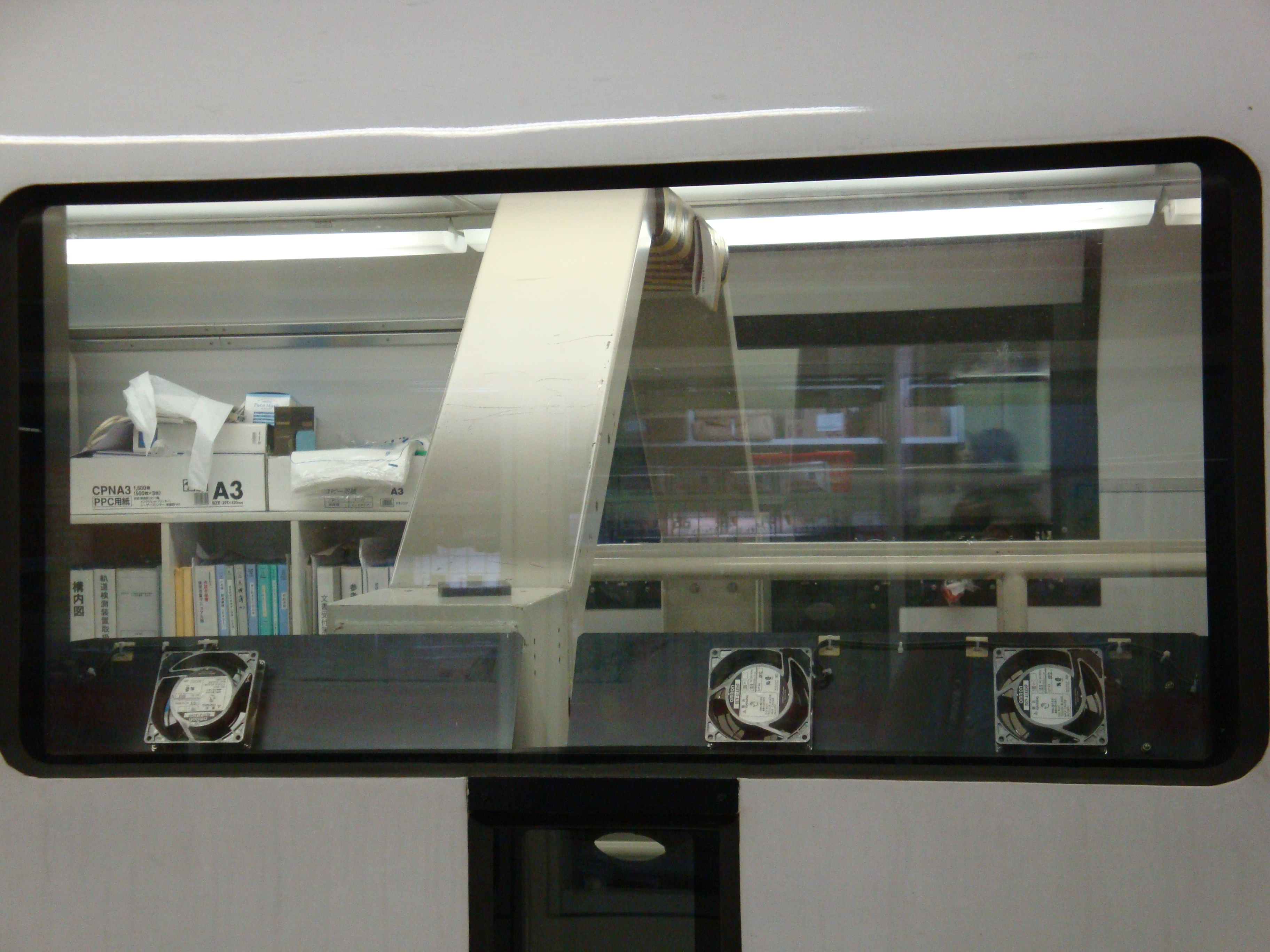 JR East E193 series DMU measurement devices